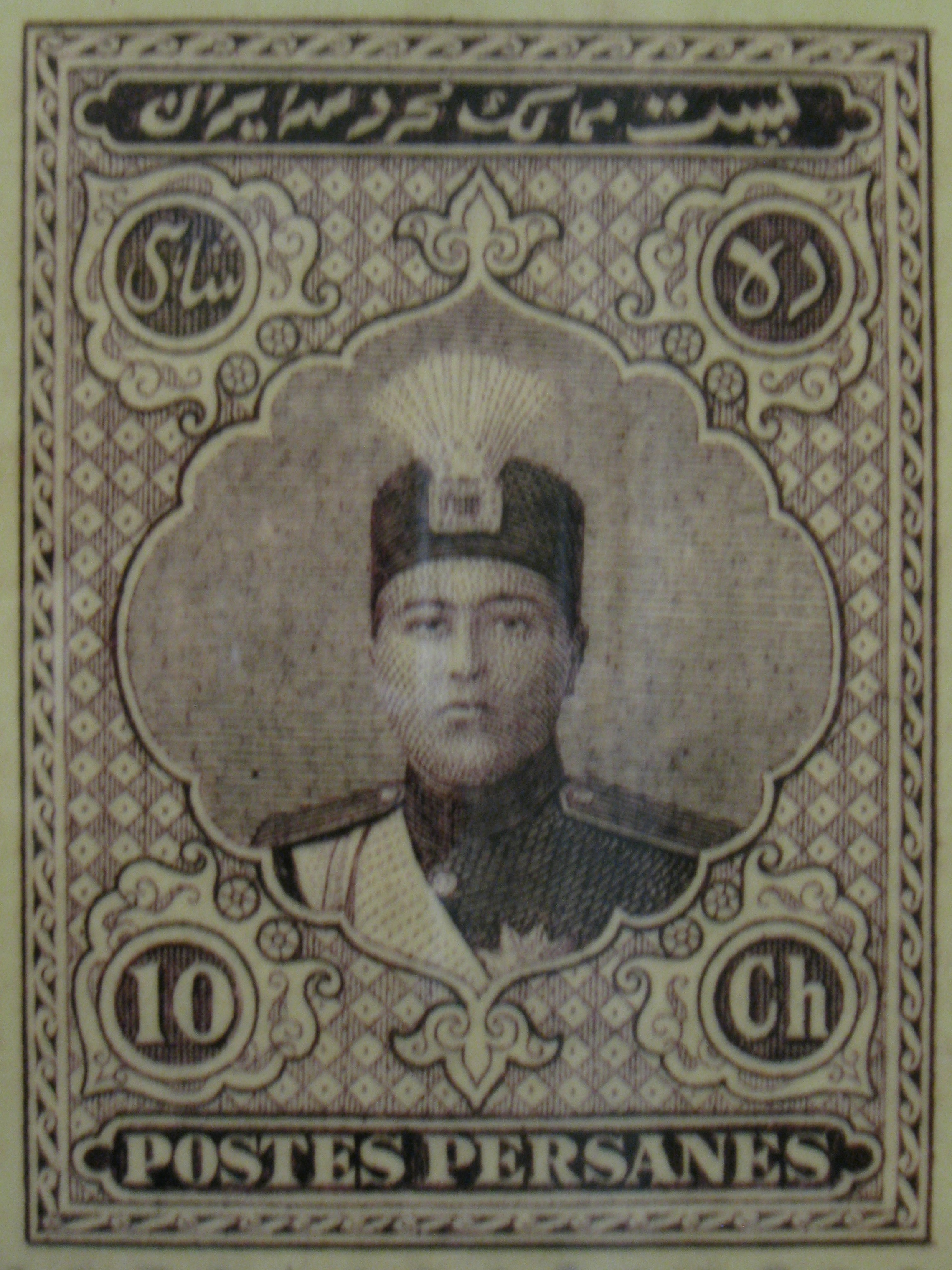 ahmadshah stamp-10 shahis